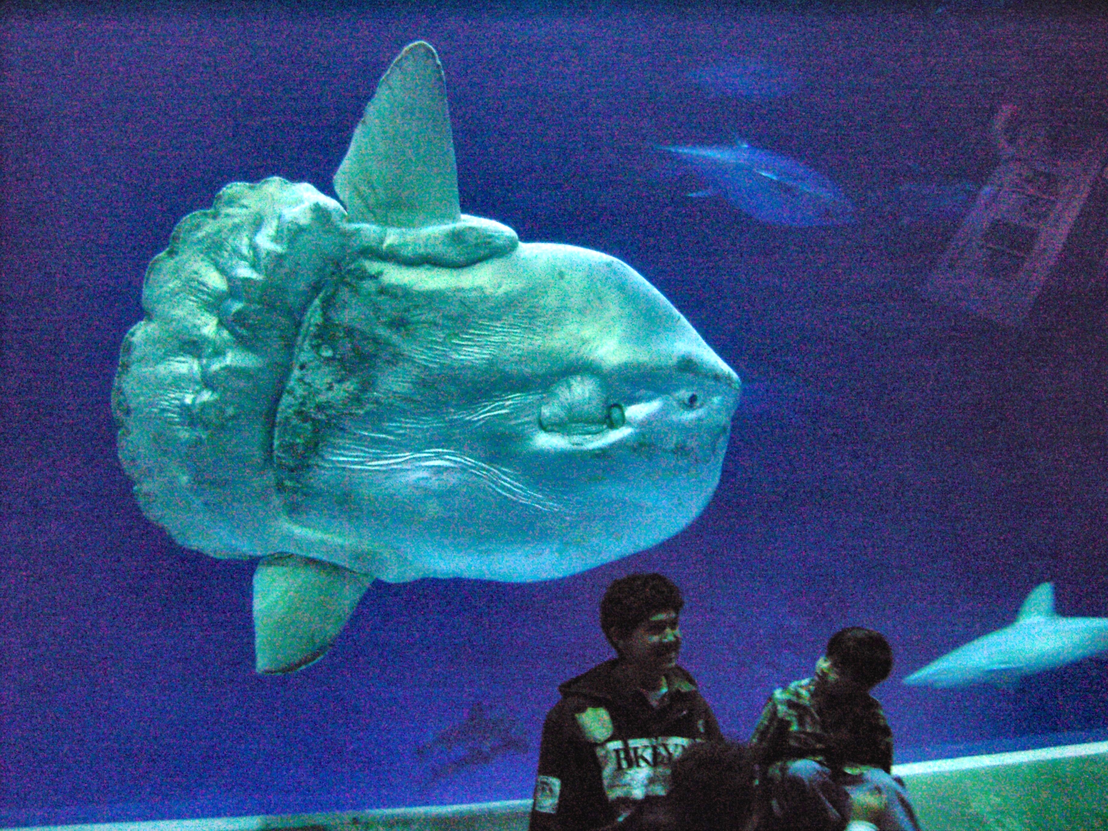 Huge ocean sunfish (Mola mola) at Outer Bay exhibit, Monterey Bay Aquarium, California.